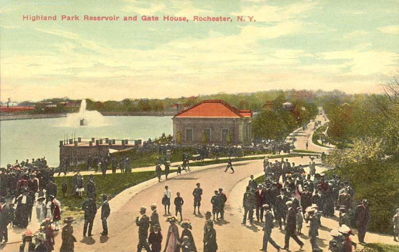 Highland Park reservoir and gatehouse, Rochester, New York; from a c. 1910 postcard.